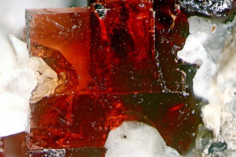 Villiaumite (FOV 7.1 x 4.7 mm) Locality: Poudrette quarry (Demix quarry; Uni-Mix quarry; Desourdy quarry), Mont Saint-Hilaire, Rouville RCM, Montérégie, Québec, Canada Original description: This is clearly not euhedral and has an obvious solution cavity